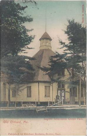 My copy of a 1905 undivided back postcard of the Free Will Baptist Tabernacle in Ocean Park, Maine.